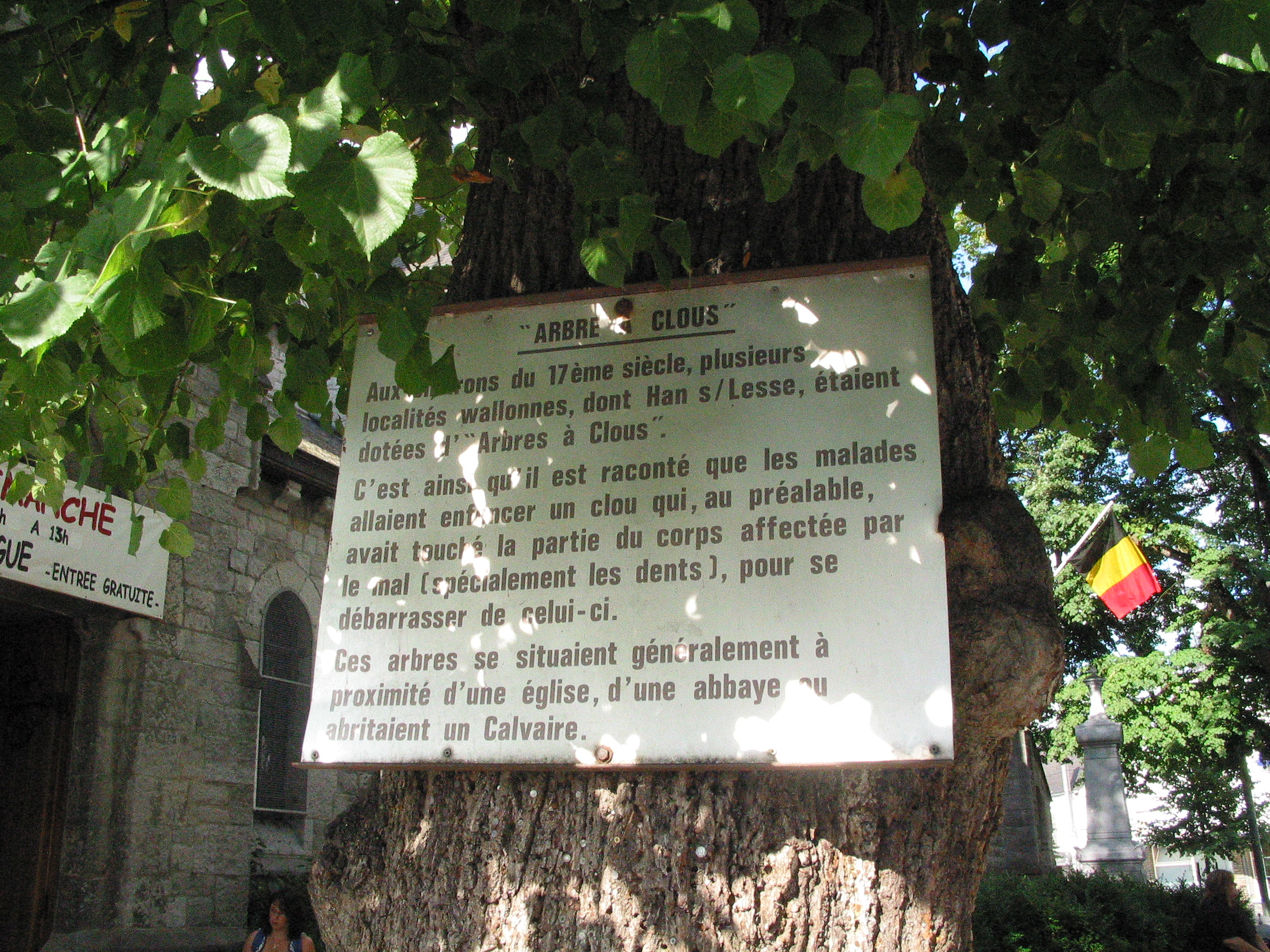 The fetich tree of Han-sur-Lesse - Common Lime (Tilia × europaea L.).